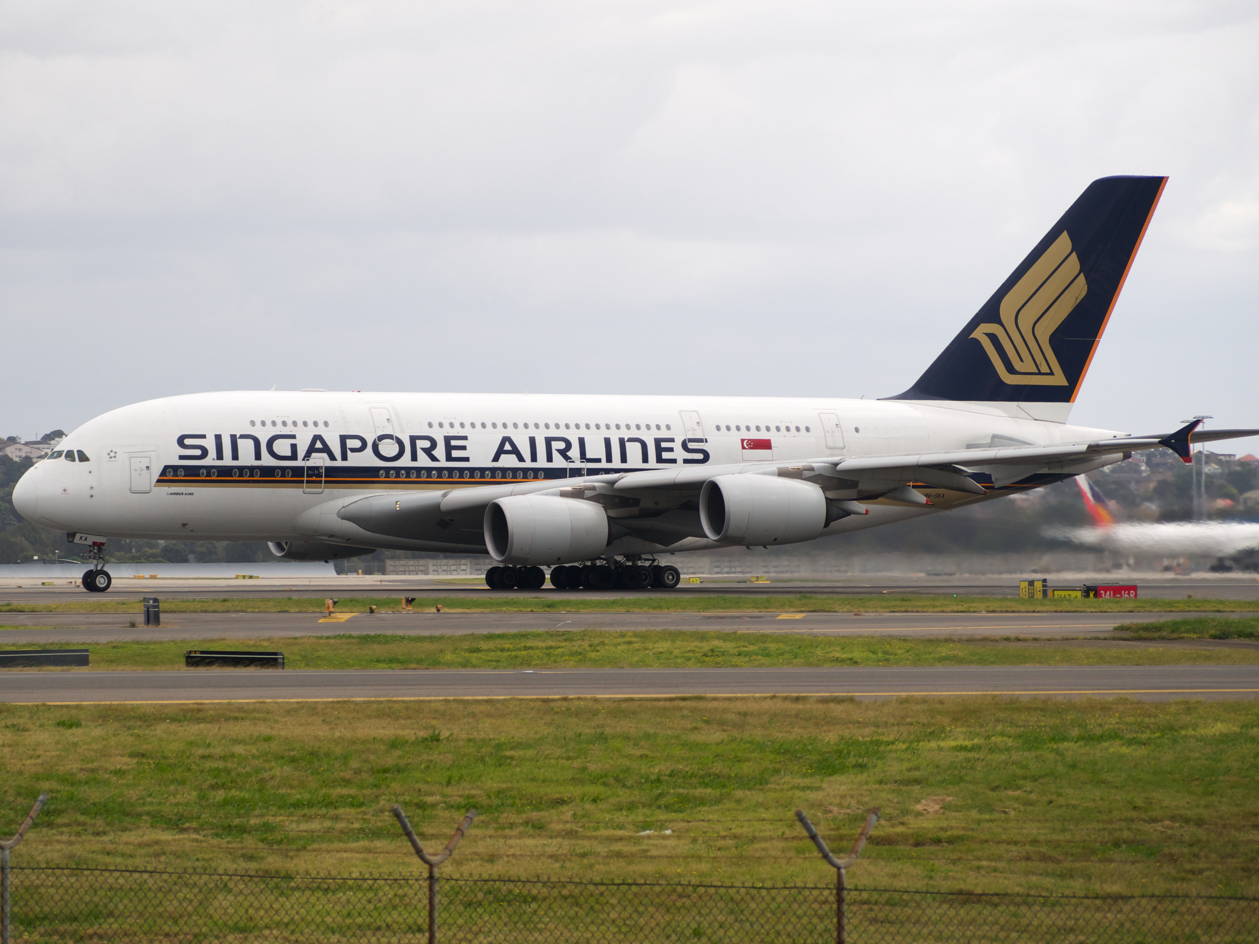 9V-SKA | c/n 003 | A380-841 | Singapore Airlines | Sydney